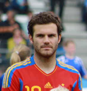 Juan Manuel Mata , playing for the Spanish Under-21 team in 2011